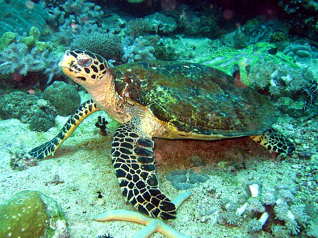 Hawksbill Turtle found at Sinandigan Wall, Sabang, Mindoro Island, Philippines. April 2006.